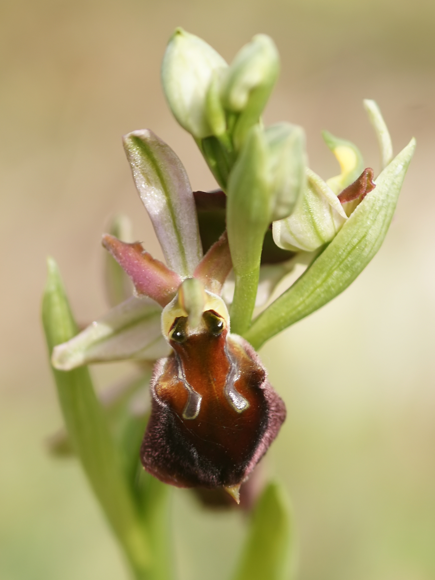 Approximate co-ordinates: plant located near Dorgali, Sardinia, Italy.